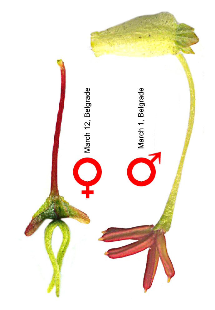 Female and male flower of Acer negundo